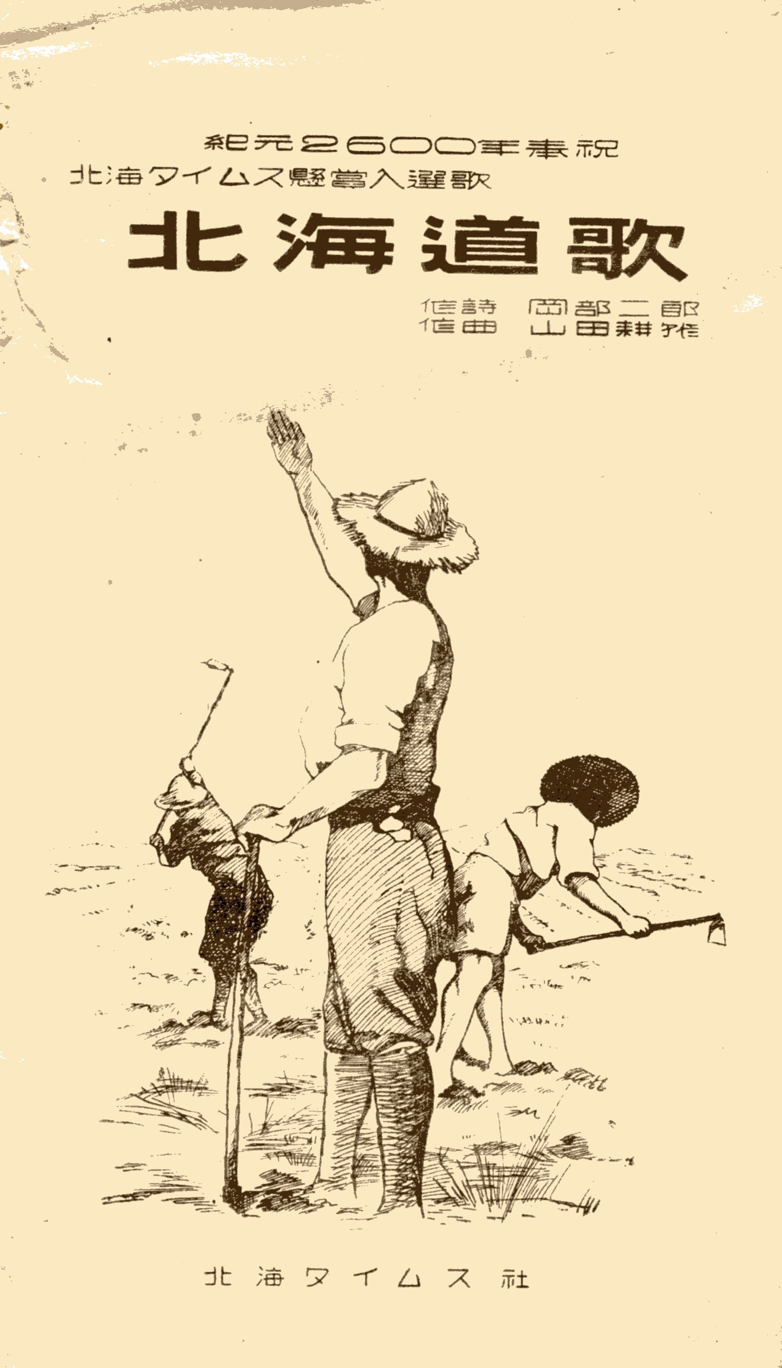 Sheet music cover of "Hokkaido-ka". This music was chosen Hokkai Times (former company) in 1940.